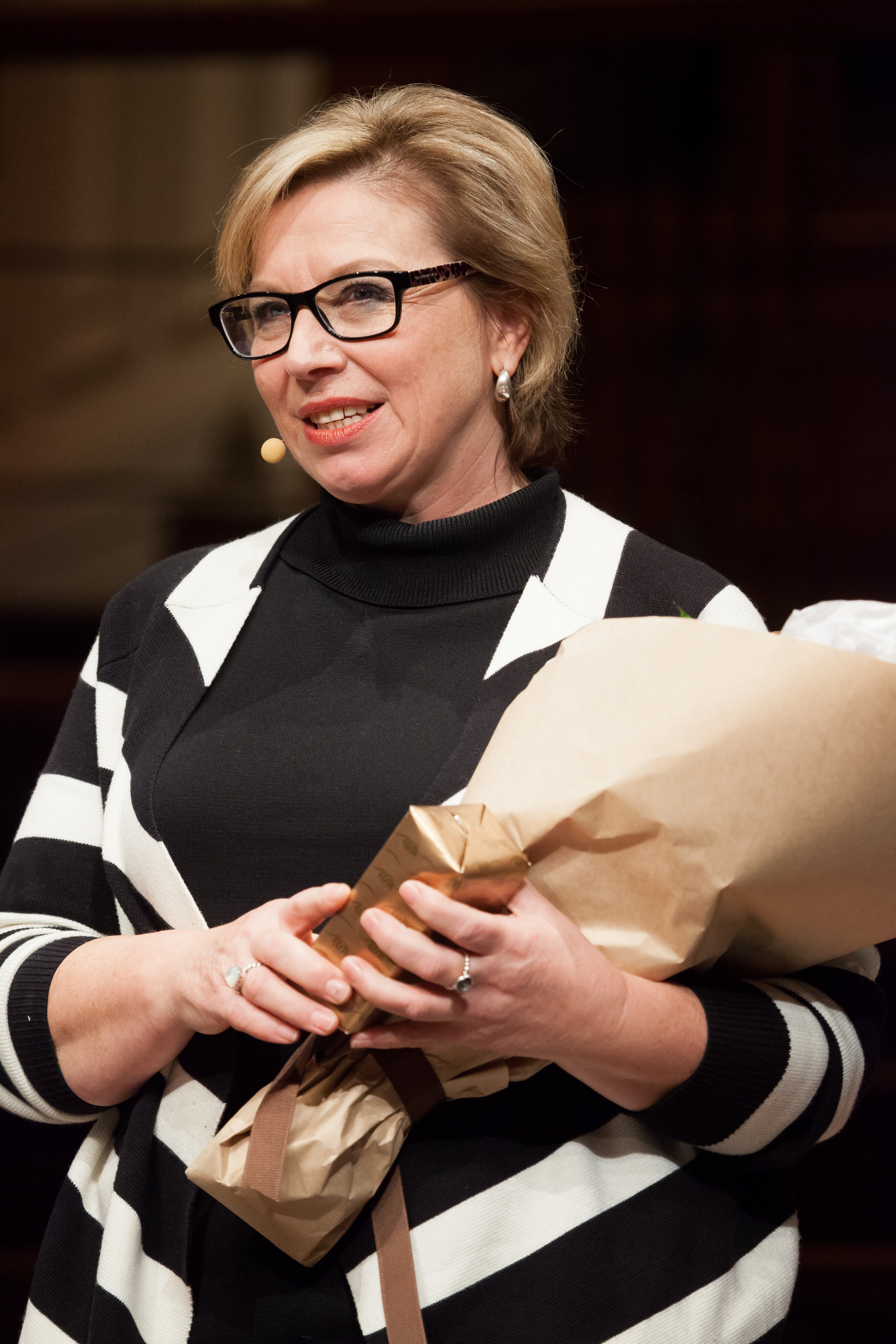 Rosie Batty at the 2015 Australians of the Year: Inspiring Change in Human Rights panel discussion